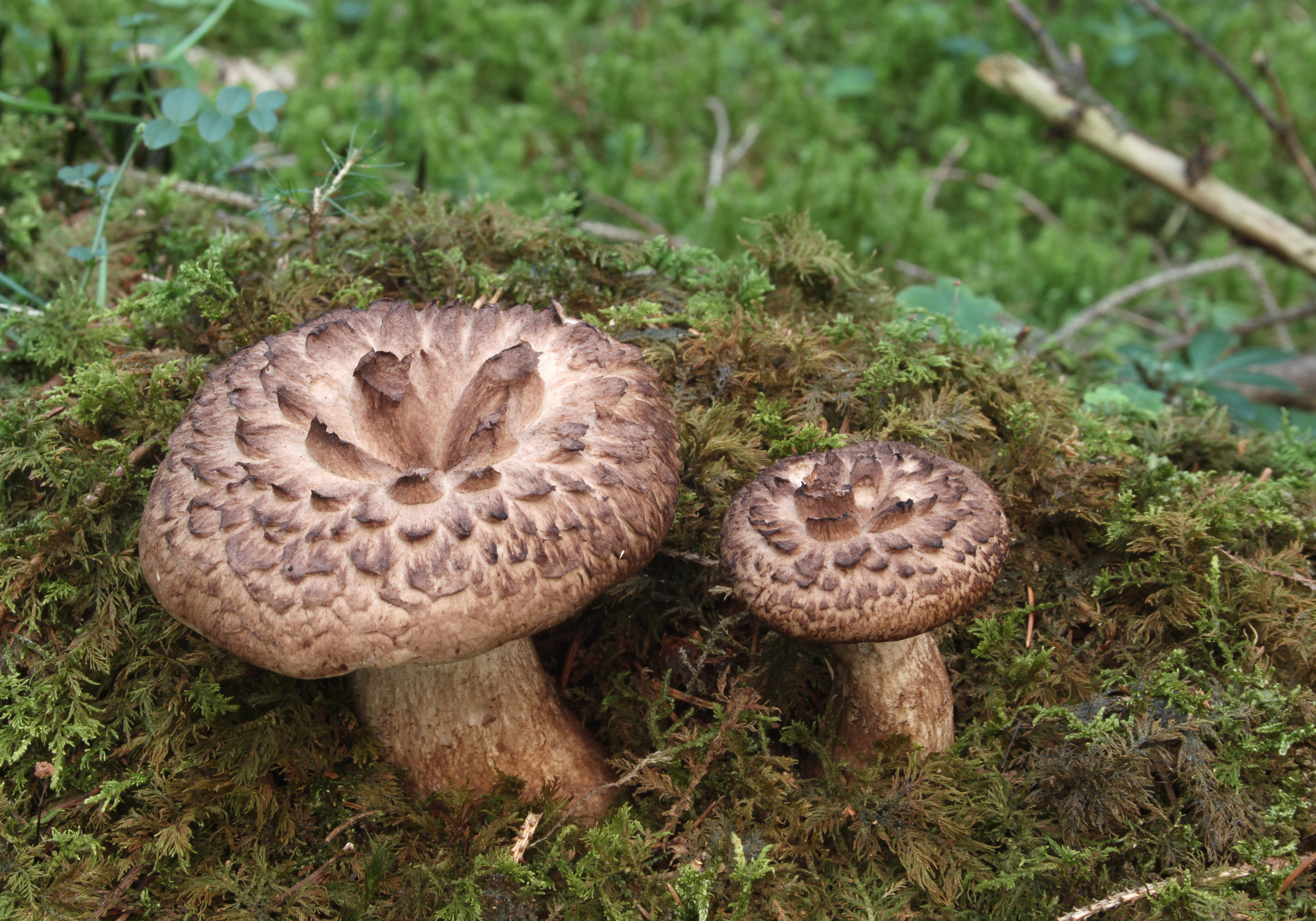 Shingled Hedgehog or Scaly Hedgehog Sarcodon imbricatus, Family: Bankeraceae, Location: Germany, Ulm, Eggingen.